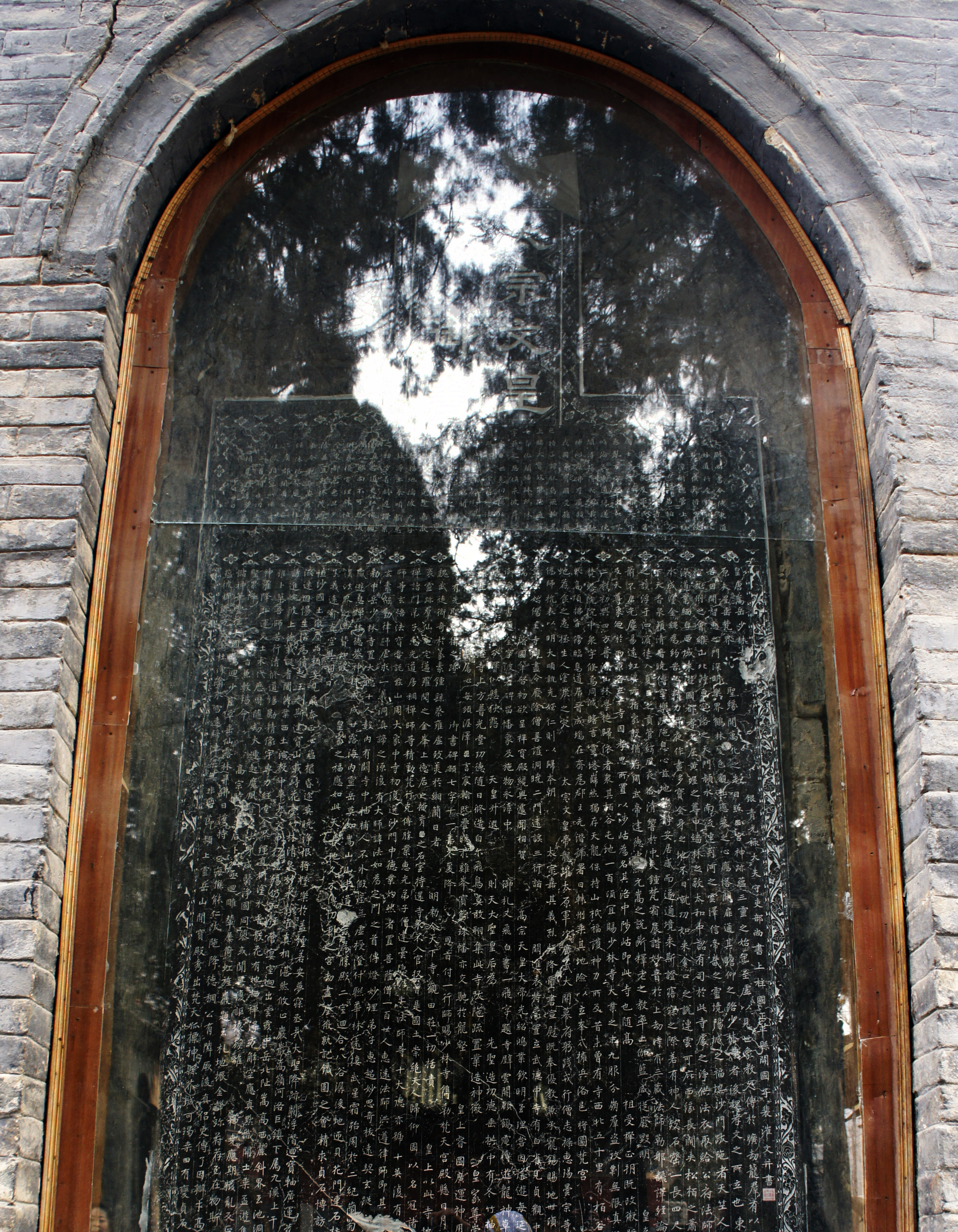 The Shaolin Monastery Stele on Mount Song (皇唐嵩岳少林寺碑), also known as Stele of Li Shimin (李世民碑), which chronicles the history of Shaolin Monastery up to the stele's erection in 728 AD, written by Pei Cui (裴漼, d. 736 AD), the title of the stele was personally calligraphed by the then Emperor Xuanzong of Tang (r. 713 - 756 AD), it contains the event of the battle between Prince of Qin Li Shimin and Wang Shichong (王世充) during the Transition from Sui to Tang Period.